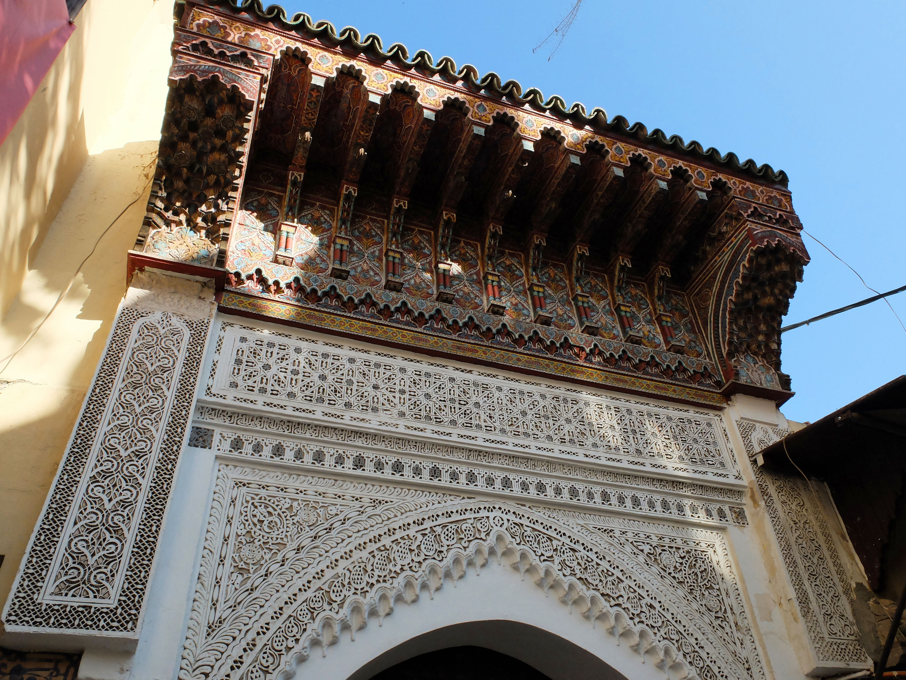 Grand Mosque of Meknes, decoration above western door.